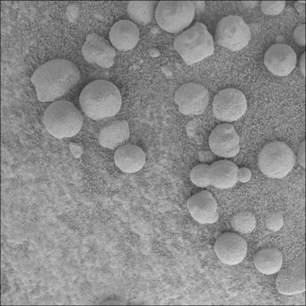 "Blueberries" on Mars found by the exploration rover Opportunity.